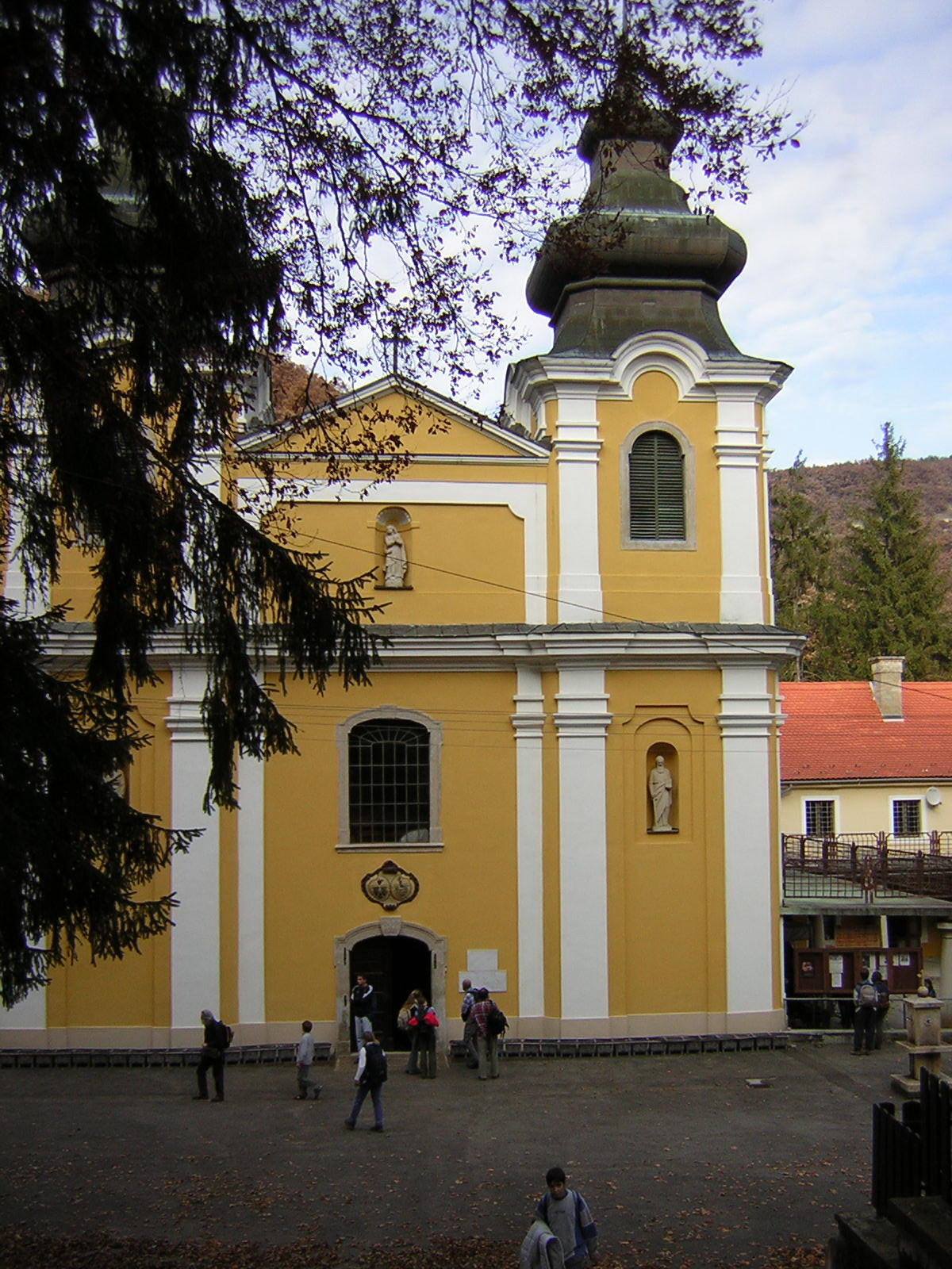 The Basilica in Mátraverebély-Szentkút